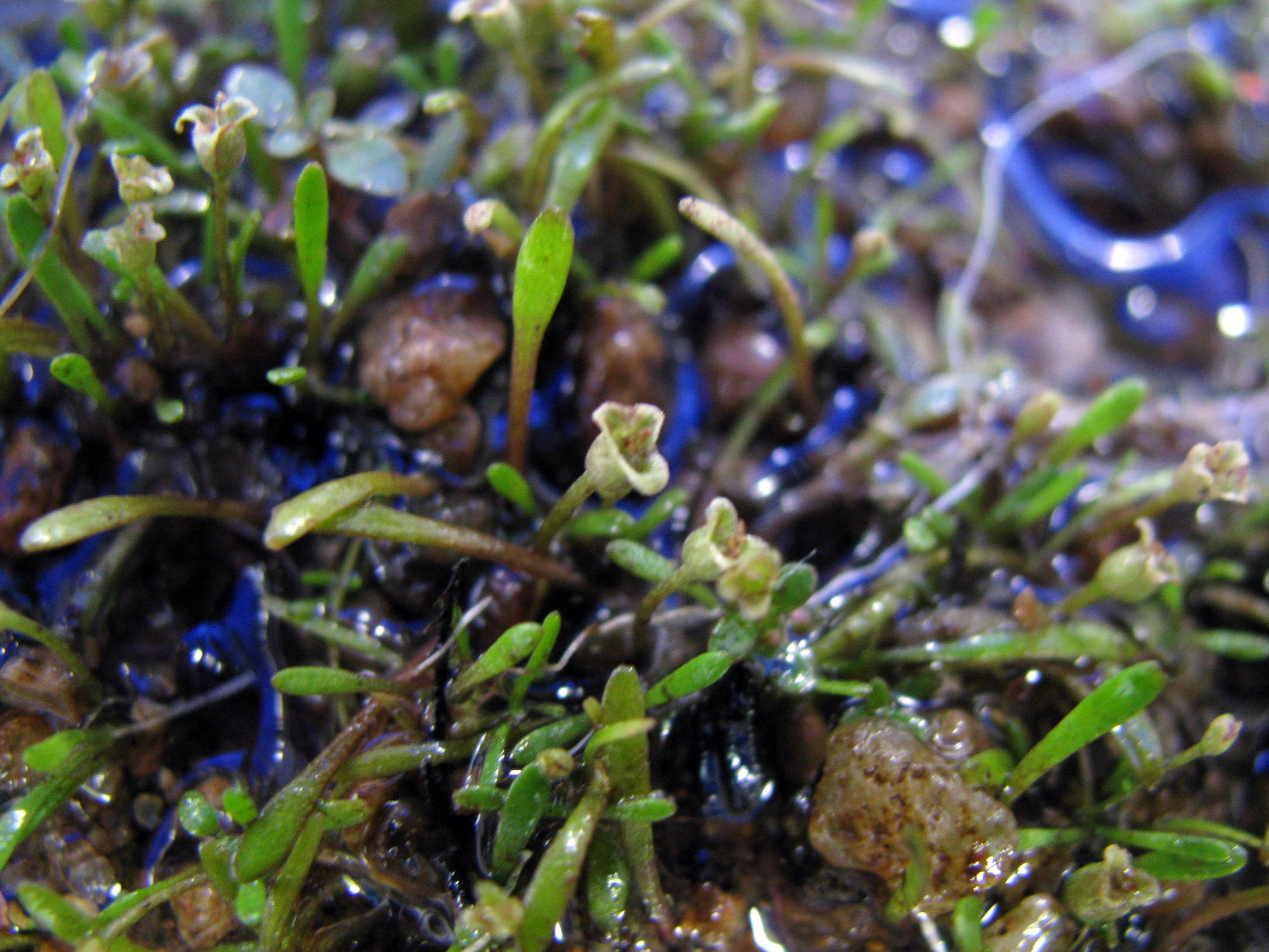 Glossostigma cleistanthum W.R.Barker - mudmat